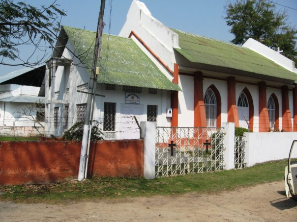 A Church near Church Field or Nehru Maidan at Tezpur.